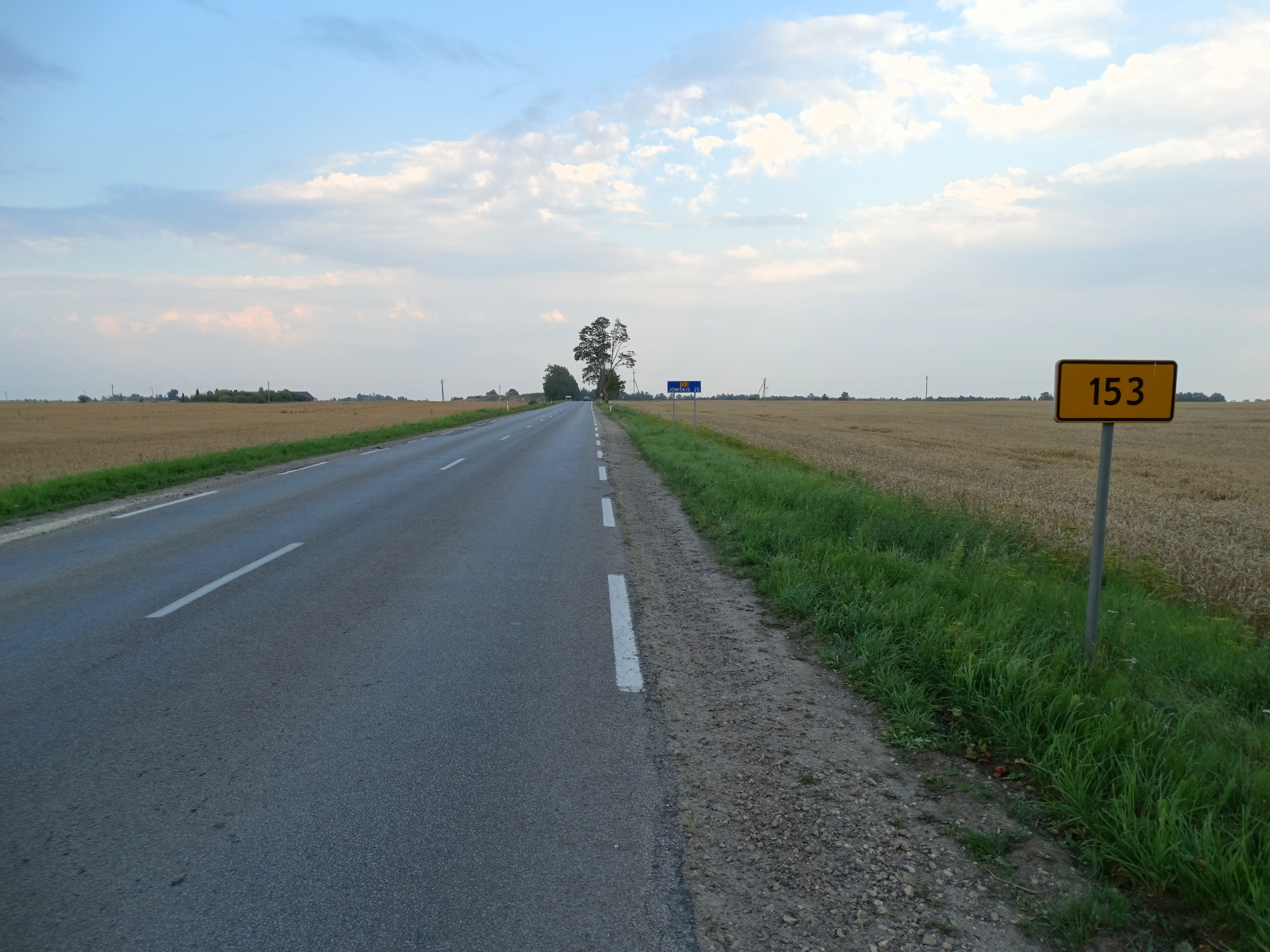 National road 153, Joniškis District, Lithuania